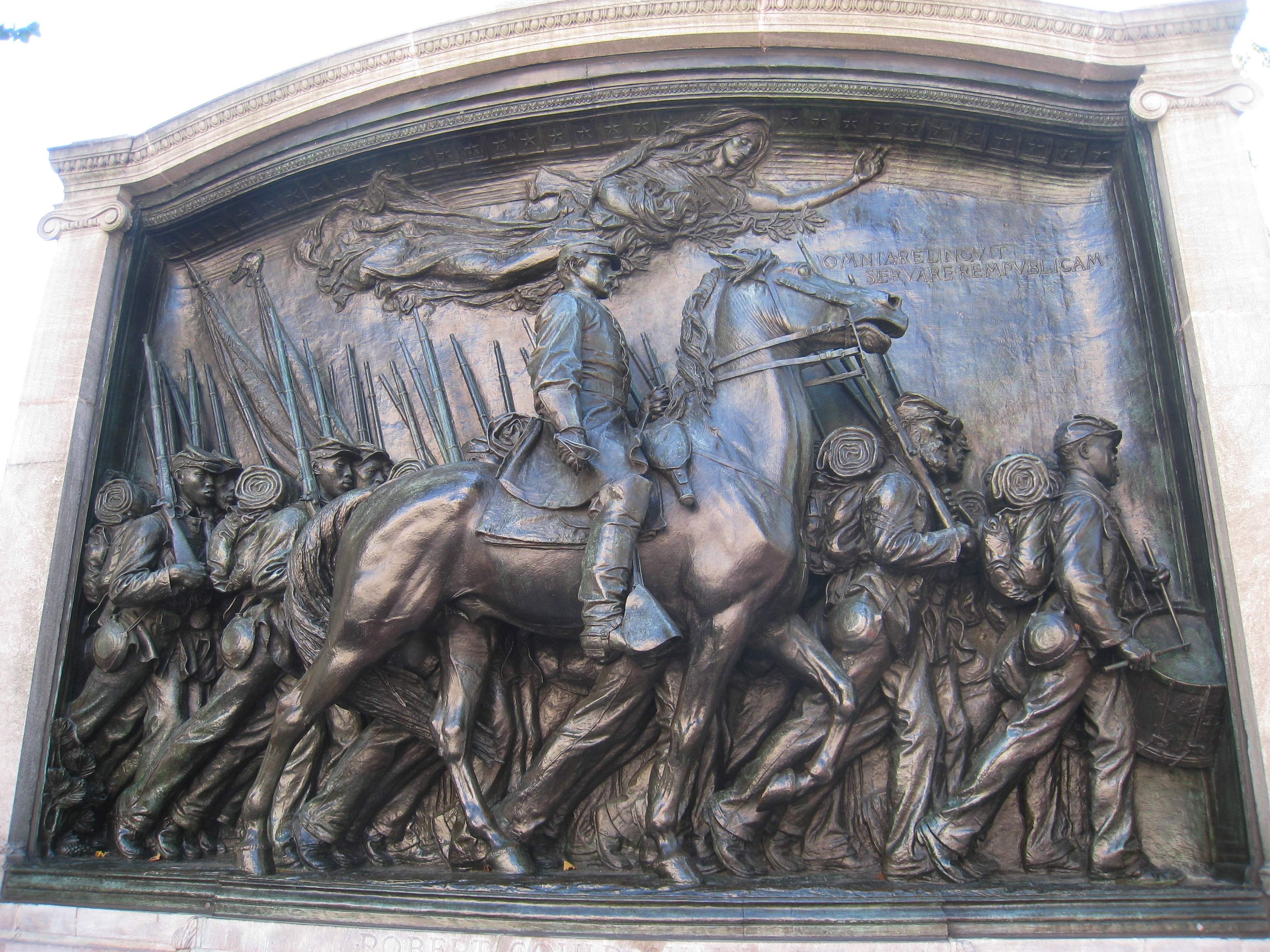 Memorial to Robert Gould Shaw and the 54th Massachusetts Volunteer Infantry Regiment, Boston Common, Boston, Massachusetts, USA. Sculpture created 1884-1887 by Augustus Saint-Gaudens (1848-1907), with memorial architecture by Stanford White. I took this photograph.